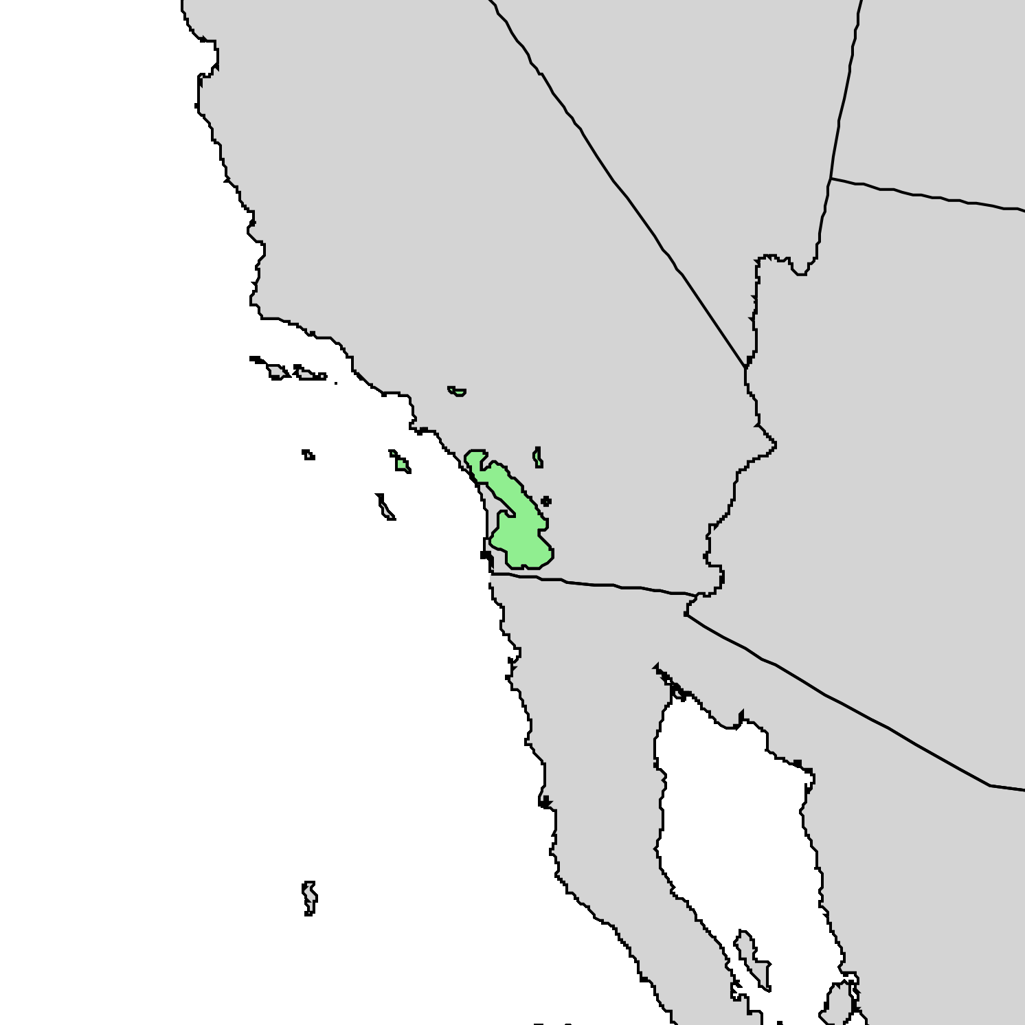 Natural distribution map for Quercus engelmannii